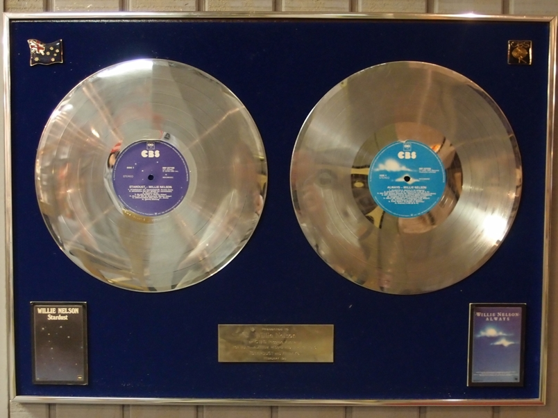 Multiplatinum certification of Willie Nelson's "Stardust" and "Always" by CBS (New Zealand) in Willie Nelson And Friends Museum Showcase in Nashville, TN.